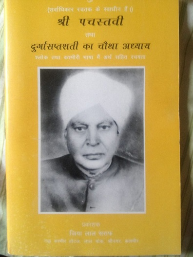 This is a picture of Panchastavi, translated into Kashmiri by Pandit Jia Lal Saraf